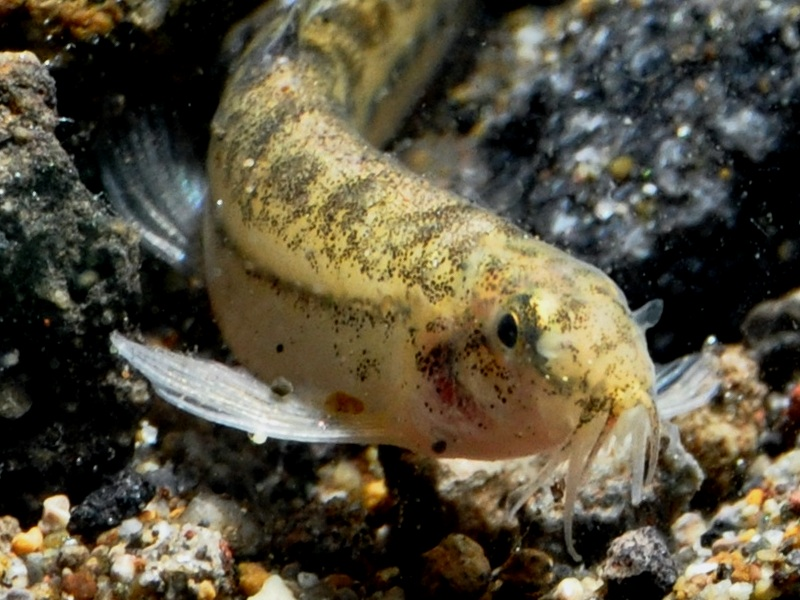 Lepidocephalichthys hasselti, ca 30 mm SL. From Banyumas, Central Java, Indonesia.